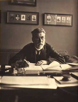 Danish structural engineer and professor Asger Skovgaard Ostenfeld (1866-1931)